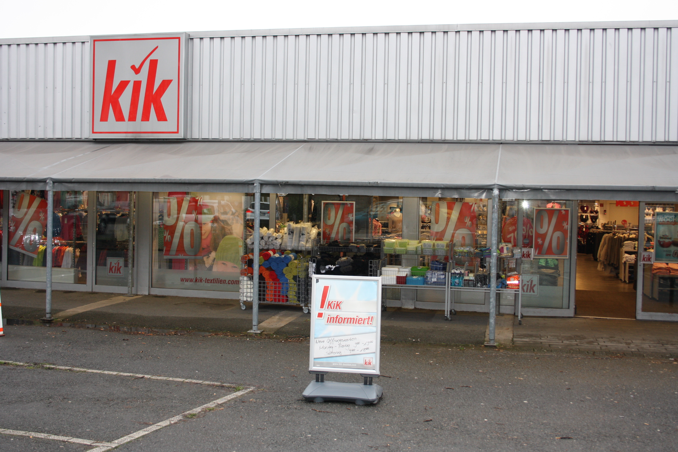 KiK Filiale